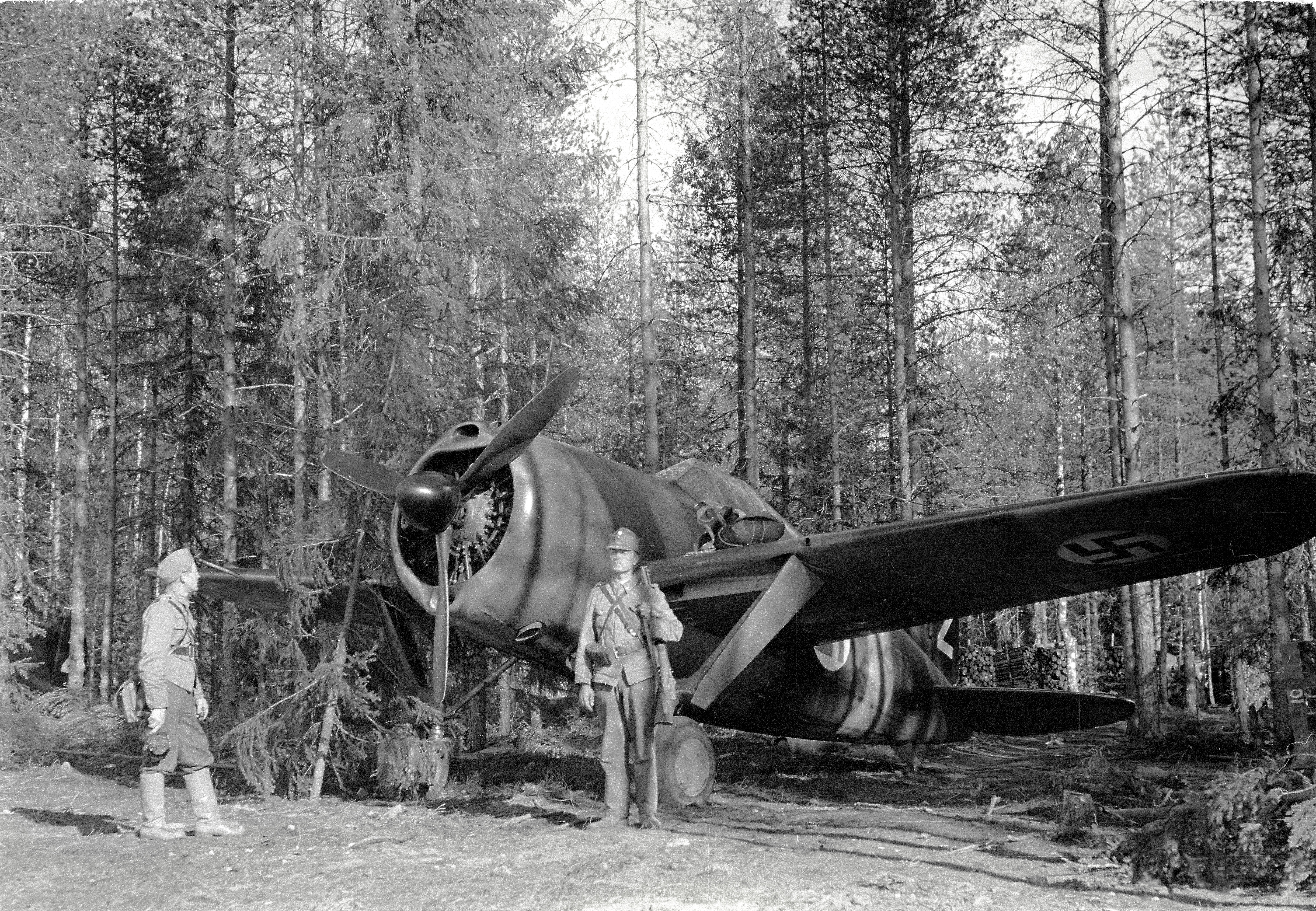 Brewster 239 fighter (BW-352) on Selänpää airfield